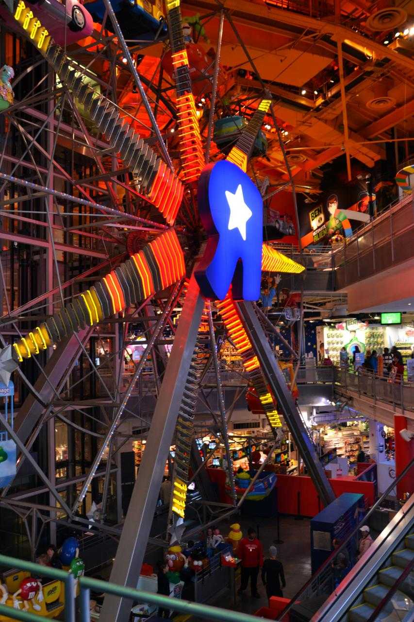 ToysRus New York Flagship store interior